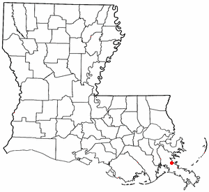 Map showing location of Port Sulphur in Louisiana